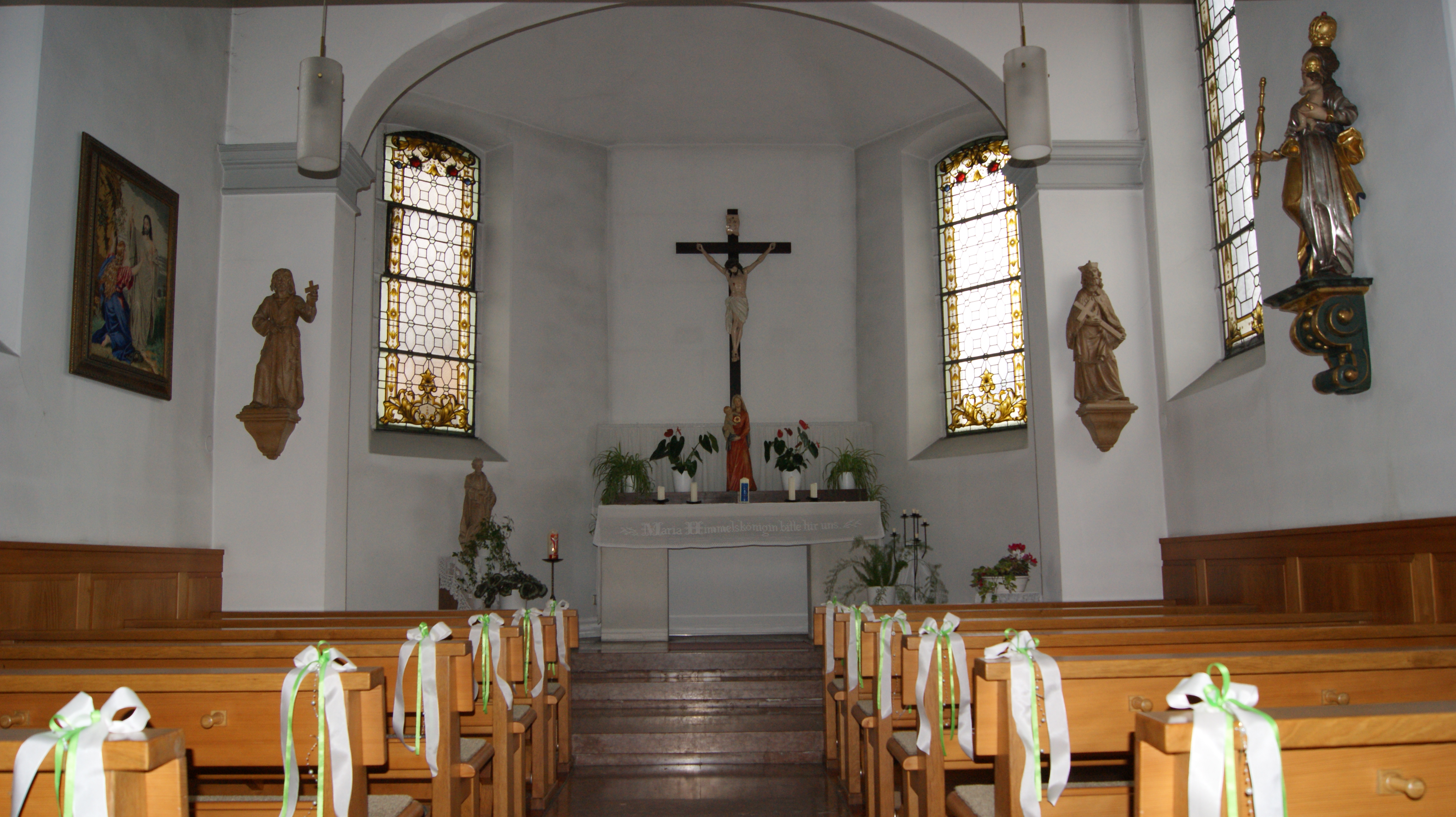 Chapel of St. John Nepomuk in "Bauern", in Hohenems. Church room and altar.